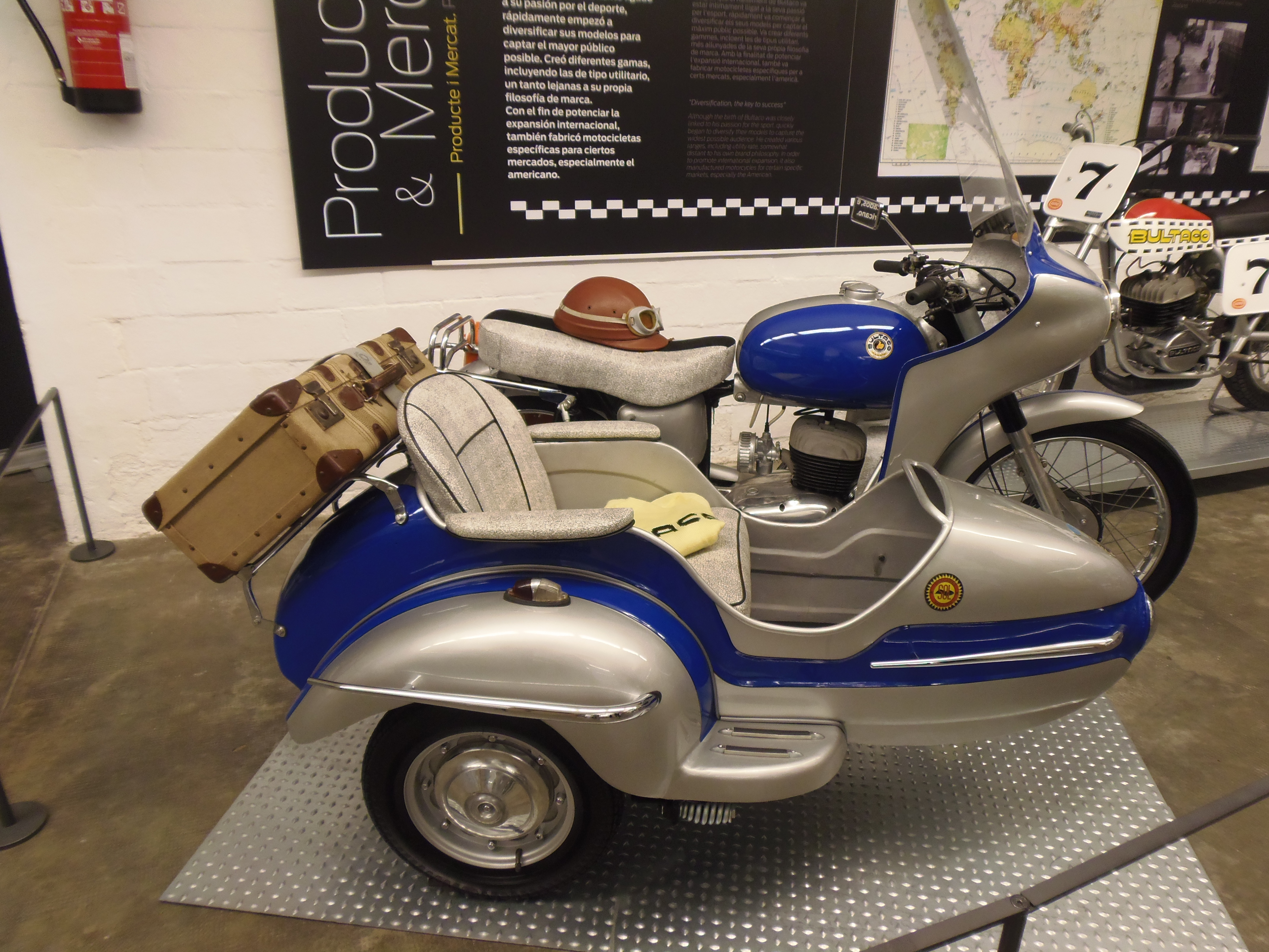 Bultaco 155 with a sidecar, 155 cc, 1961